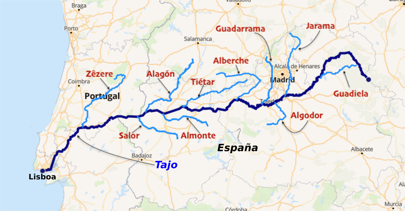 Tagus river drainage basin (Spain) This map may be incomplete, and may contain errors. Don't rely solely on it for navigation.